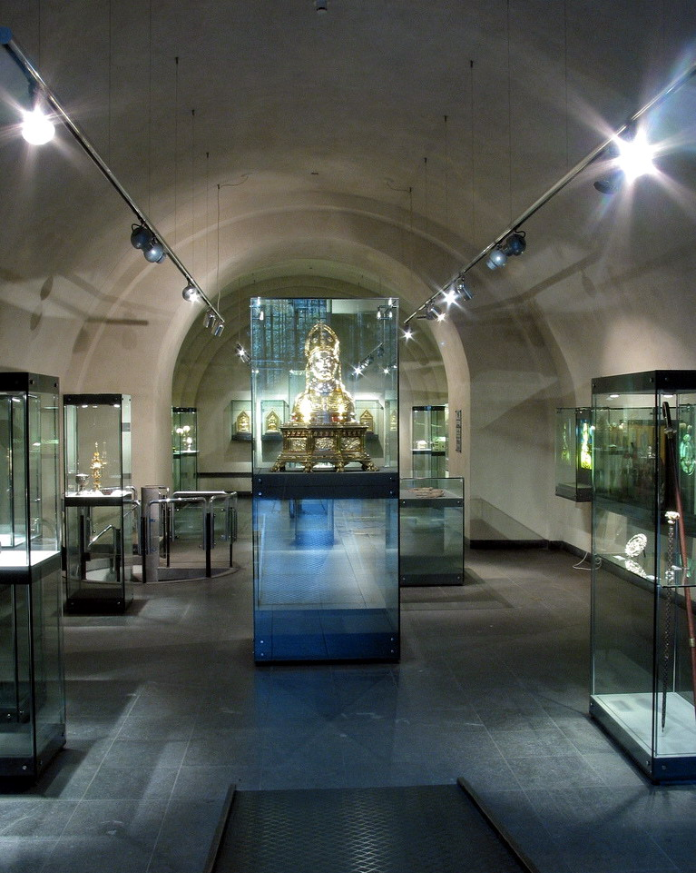 Basilica of Saint Servatius, Maastricht, the Netherlands. The treasury.